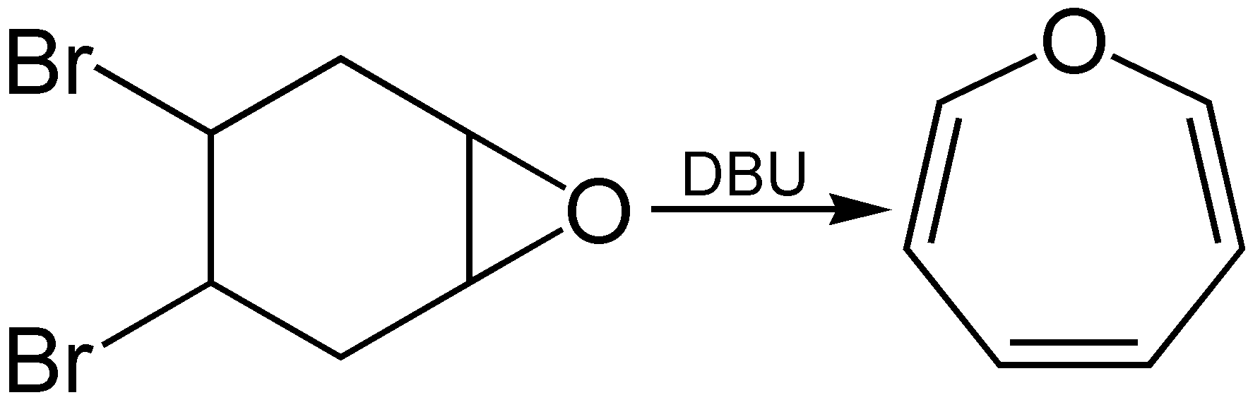 Synthese von Oxepin